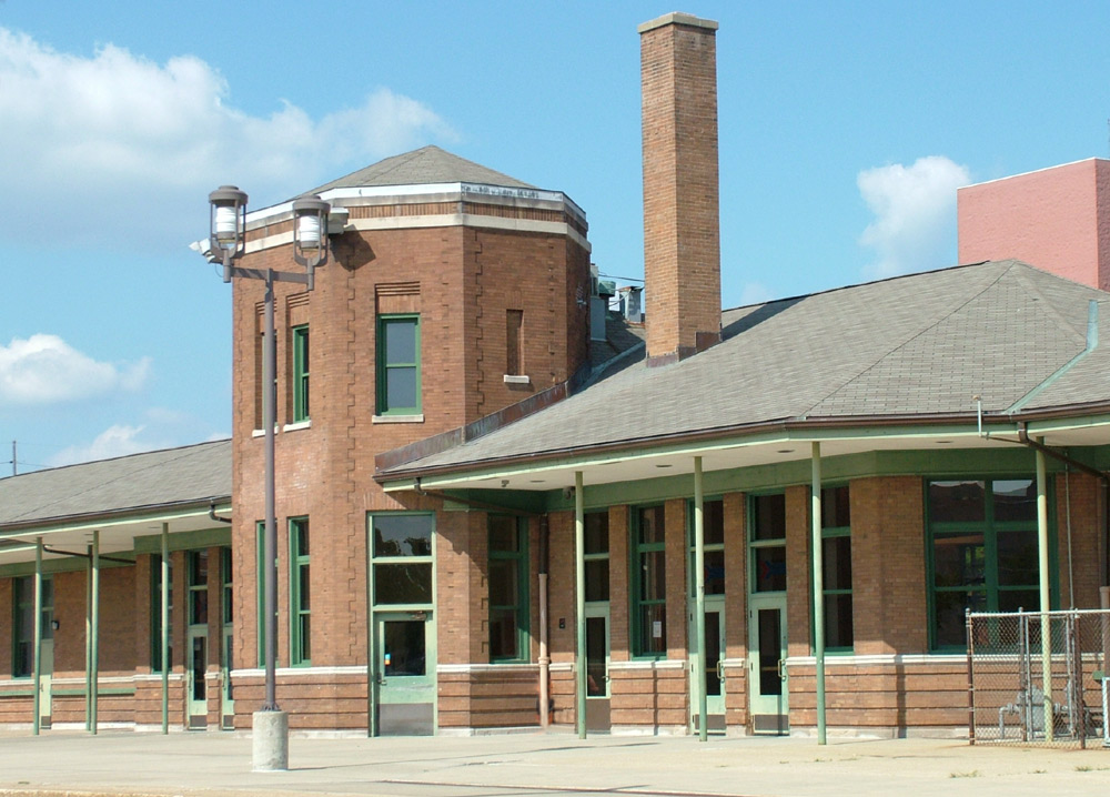 I, RI-Bill 00:33, 21 June 2007 (UTC), took this photograph of Springfield (Amtrak) station, August 2005, and hereby release the image into the public domain.